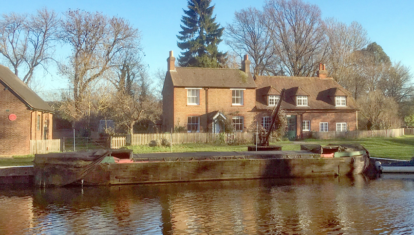 Perseverence IV a preserved Wey river barge moored at Dapdune Wharf in Guildford. Wharf cottage in the background is a listed building.